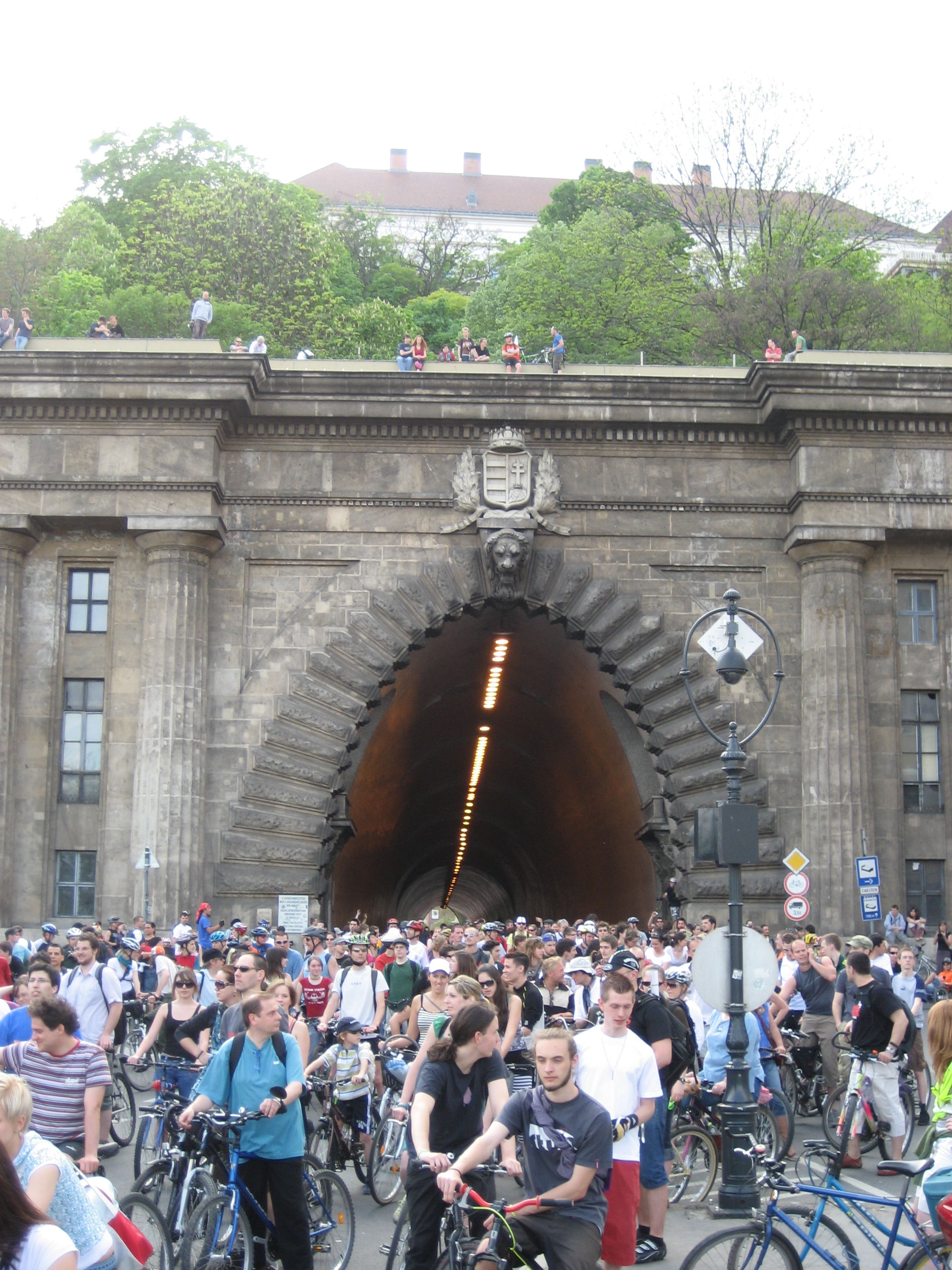 Critical Mass in Budapest, April 19, 2009